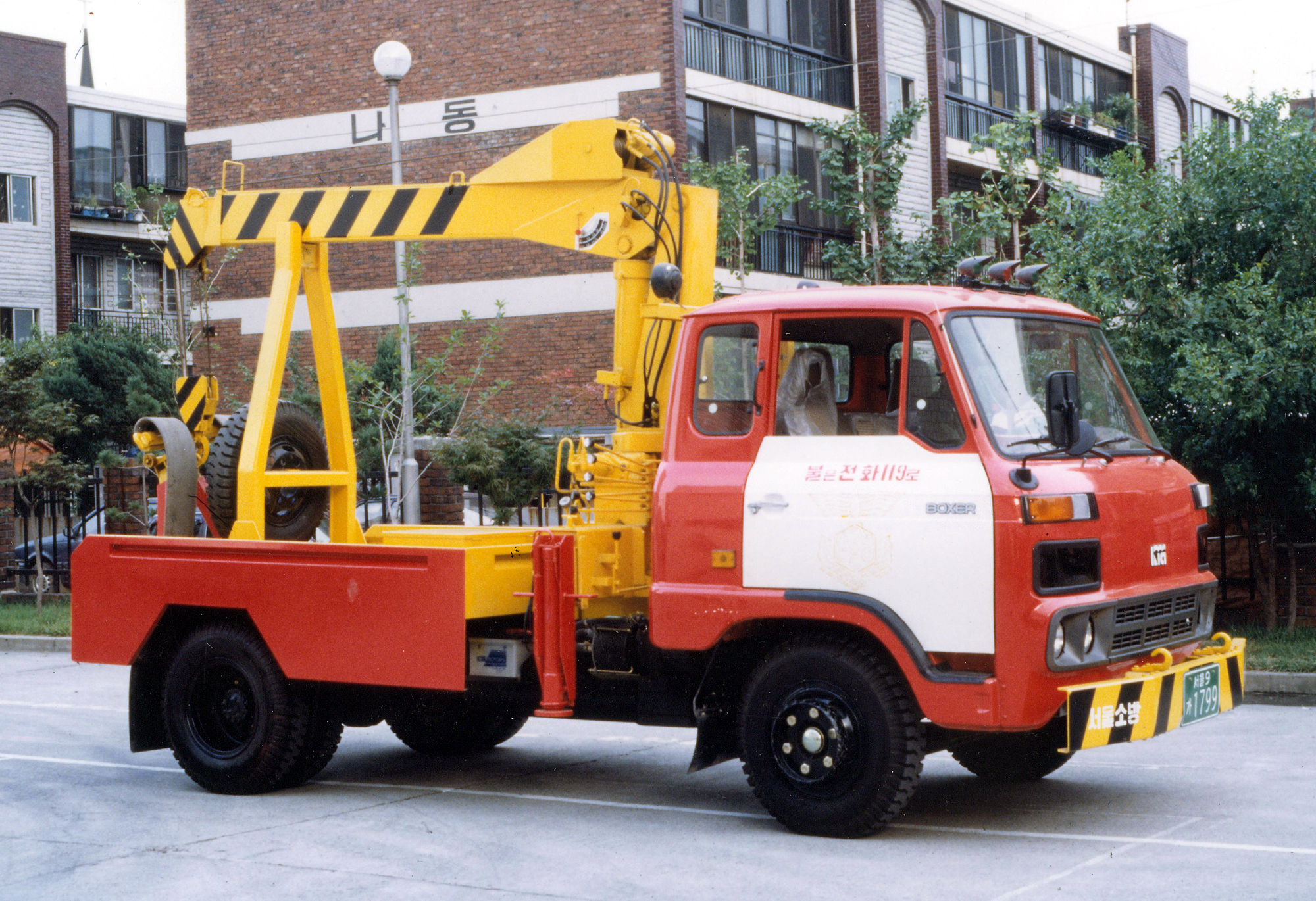 2000년대 초반 서울소방 소방공무원(소방관) 활동 사진